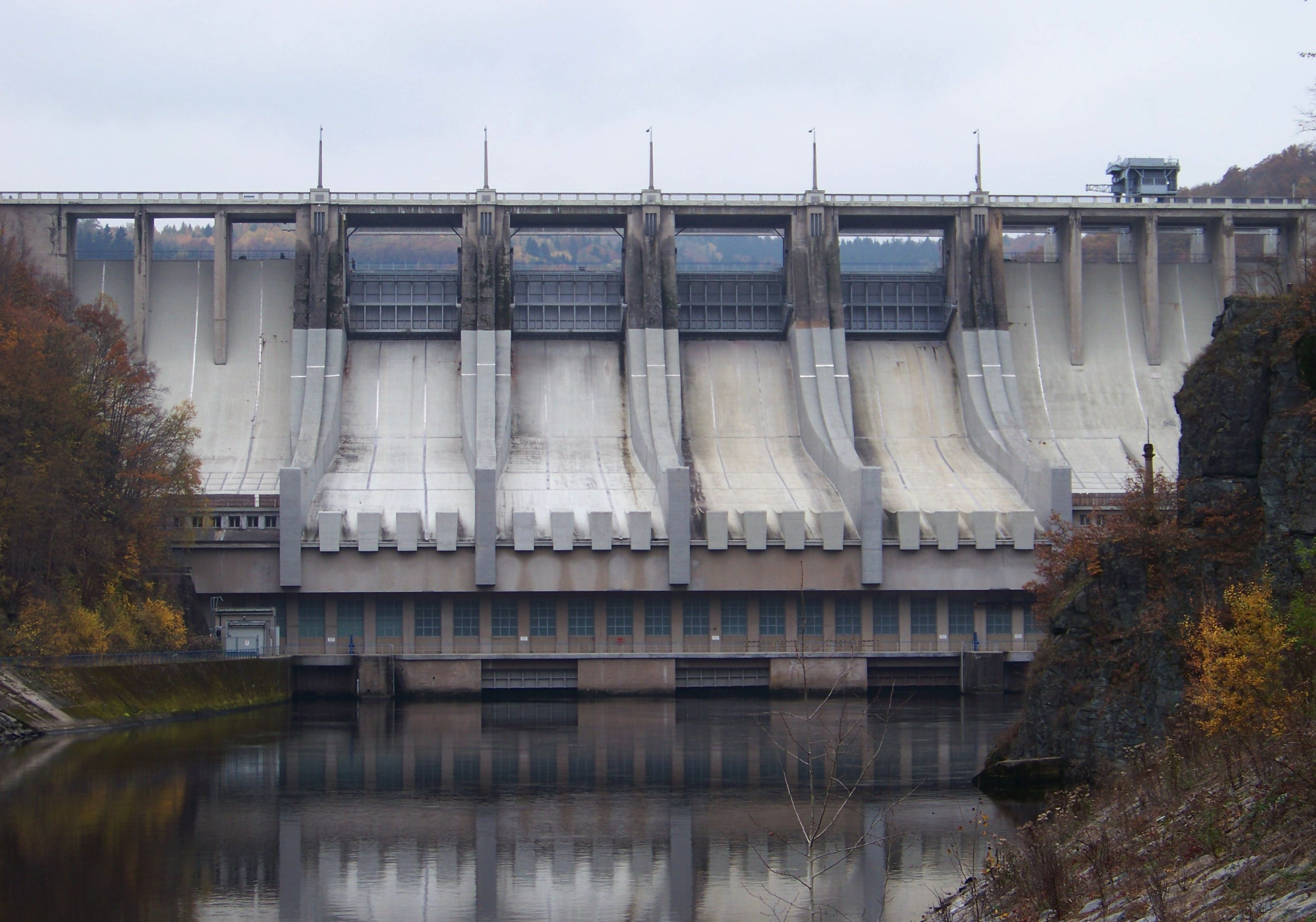 Rabyně, Benešov District and Štěchovice-Třebenice, Prague-West District, Central Bohemian Region, the Czech Republic. Slapy dam. - OpenStreetMap(Info)